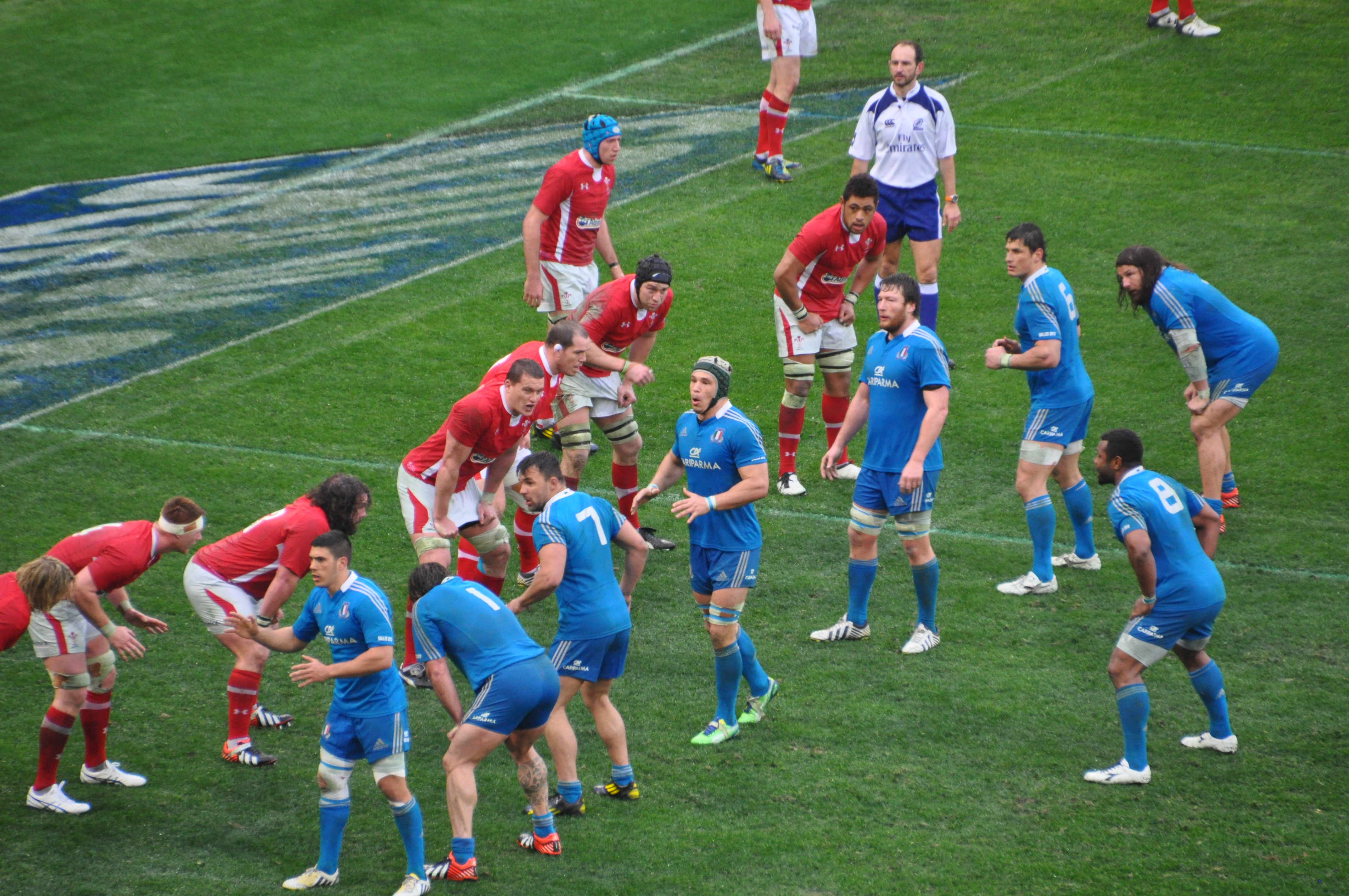 2013 Six Nations Italy vs Wales